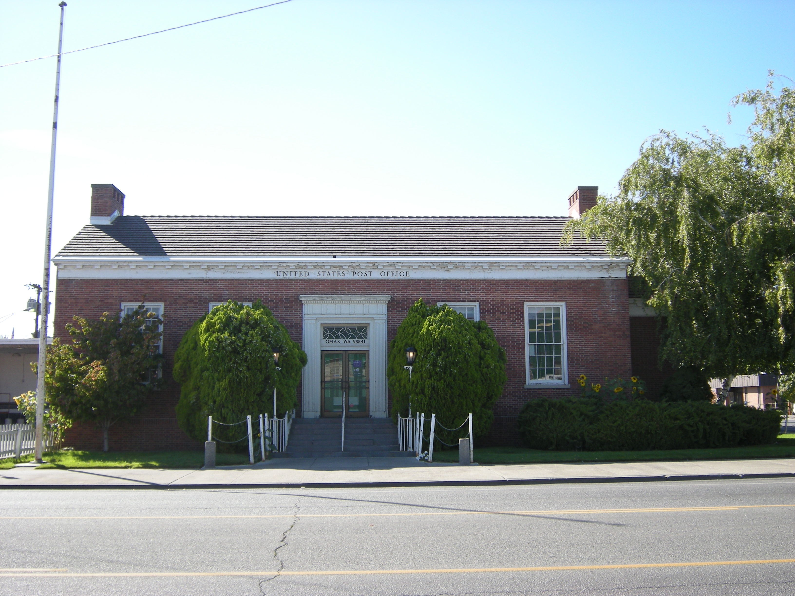 Post office, Omak, Washington. The building is on the National Register of Historic Places.